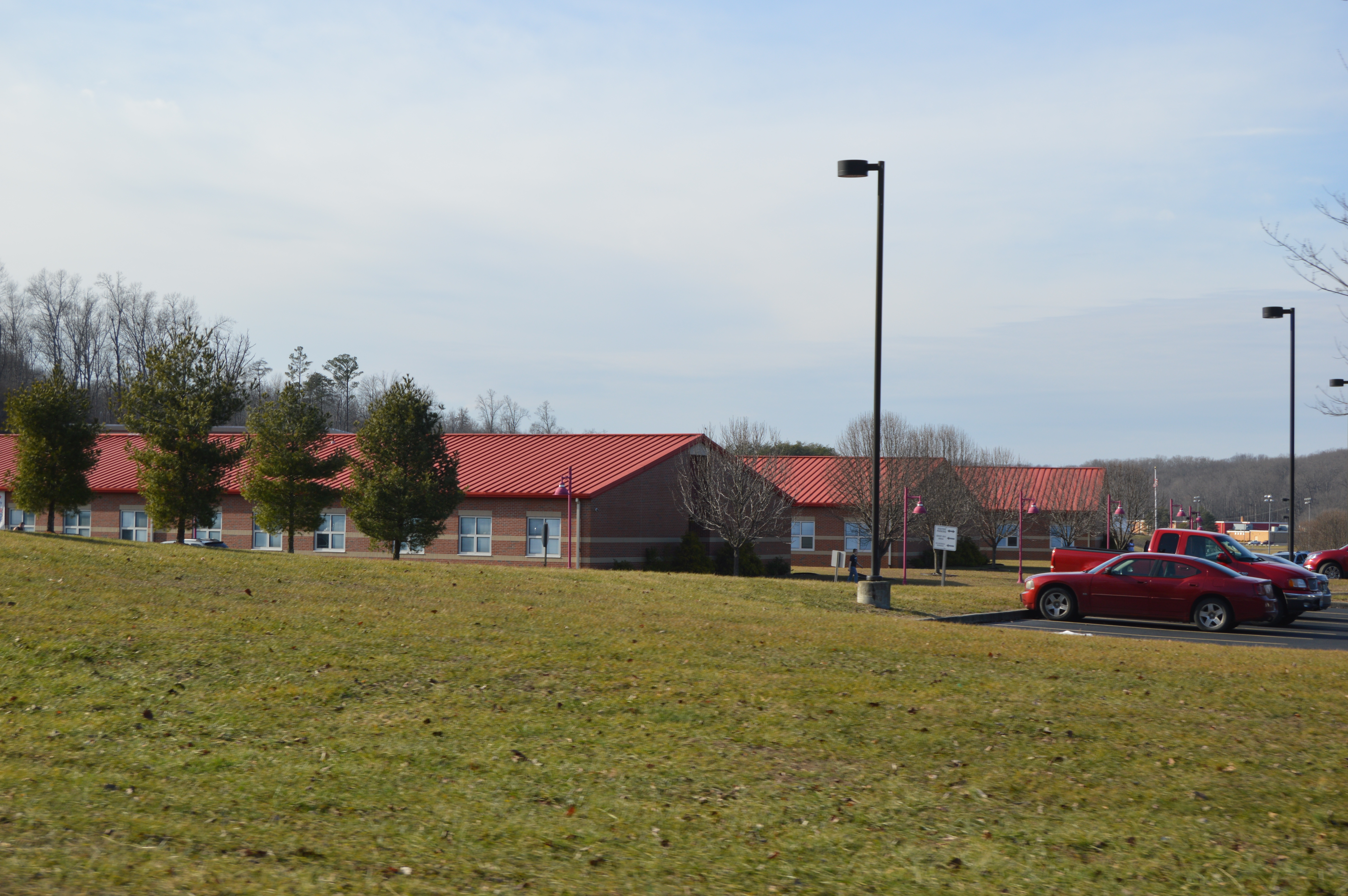 Several wings of the Rock Hill Elementary School, located on Pine Grove-Smokey Row Road just east of Royersville in Elizabeth Township, Lawrence County, Ohio, United States.